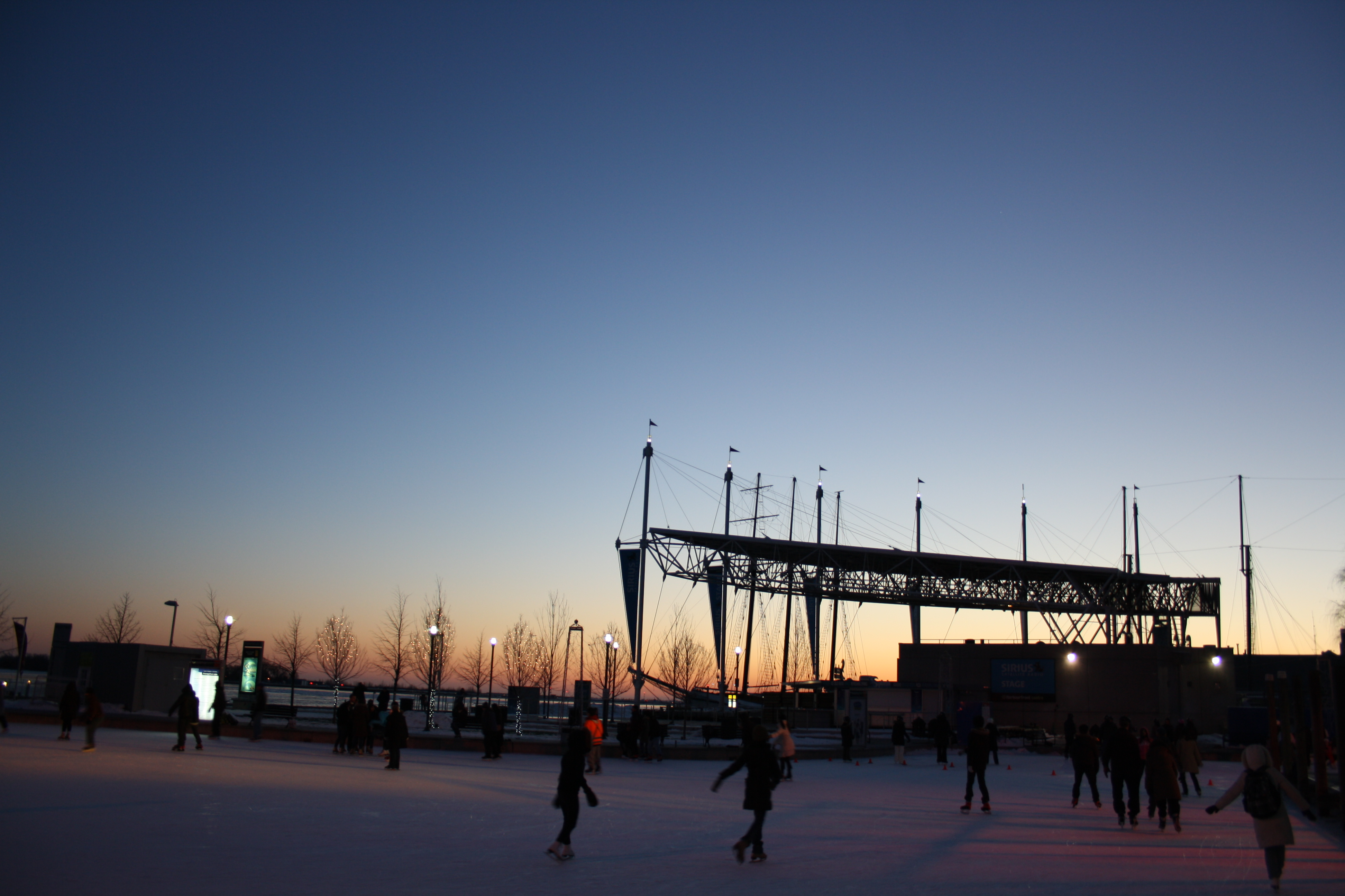 One of my favourite places to skate in the winter.